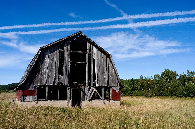 Barratt Pig Barn, Port Oneida Rural Historic District, Sleeping Bear National Lakeshore, Empire, Michigan